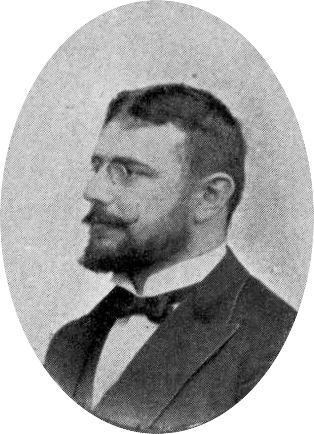 T. A. Rottanzi